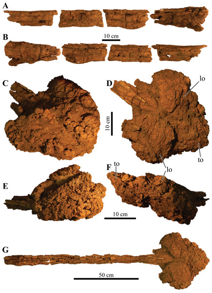 Photographs of distal caudal vertebrae (handle) and tail club of Akainacephalus johnsoni (UMNH VP 20202). Handle in (A), left lateral; and (B), right lateral view. Tail club in (C), dorsal; (D), ventral; (E), left lateral; and (F), right lateral views. Reconstructed handle and tail club in (G), dorsal view. Study sites: lo, lateral osteoderms; to, terminal osteoderms.